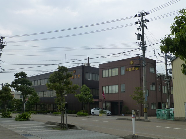 The head office of Kawada_technologies, inc. in Nanto, Toyama, Japan.